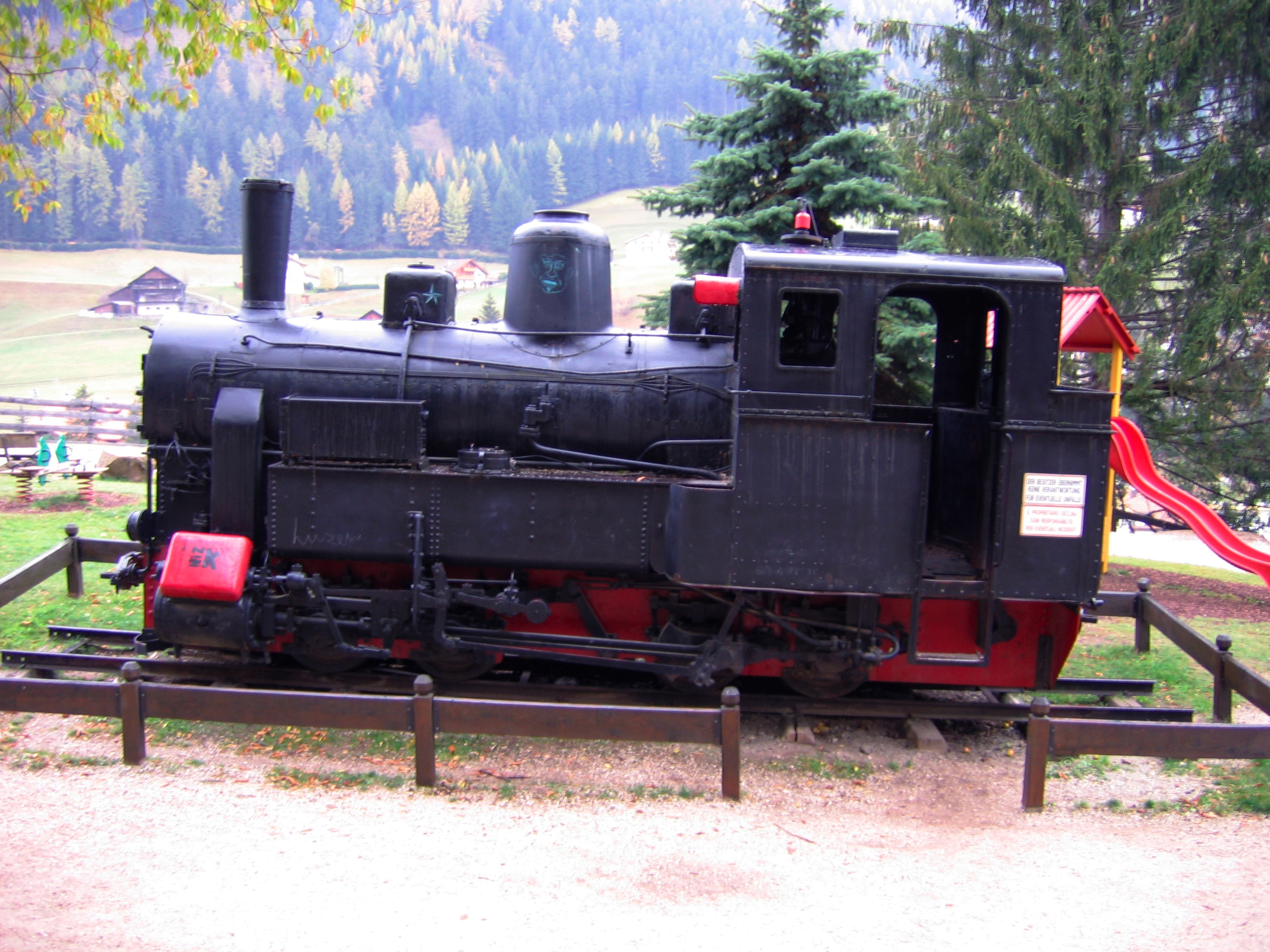 Locomotive of the abbandoned Val Gardena railroad